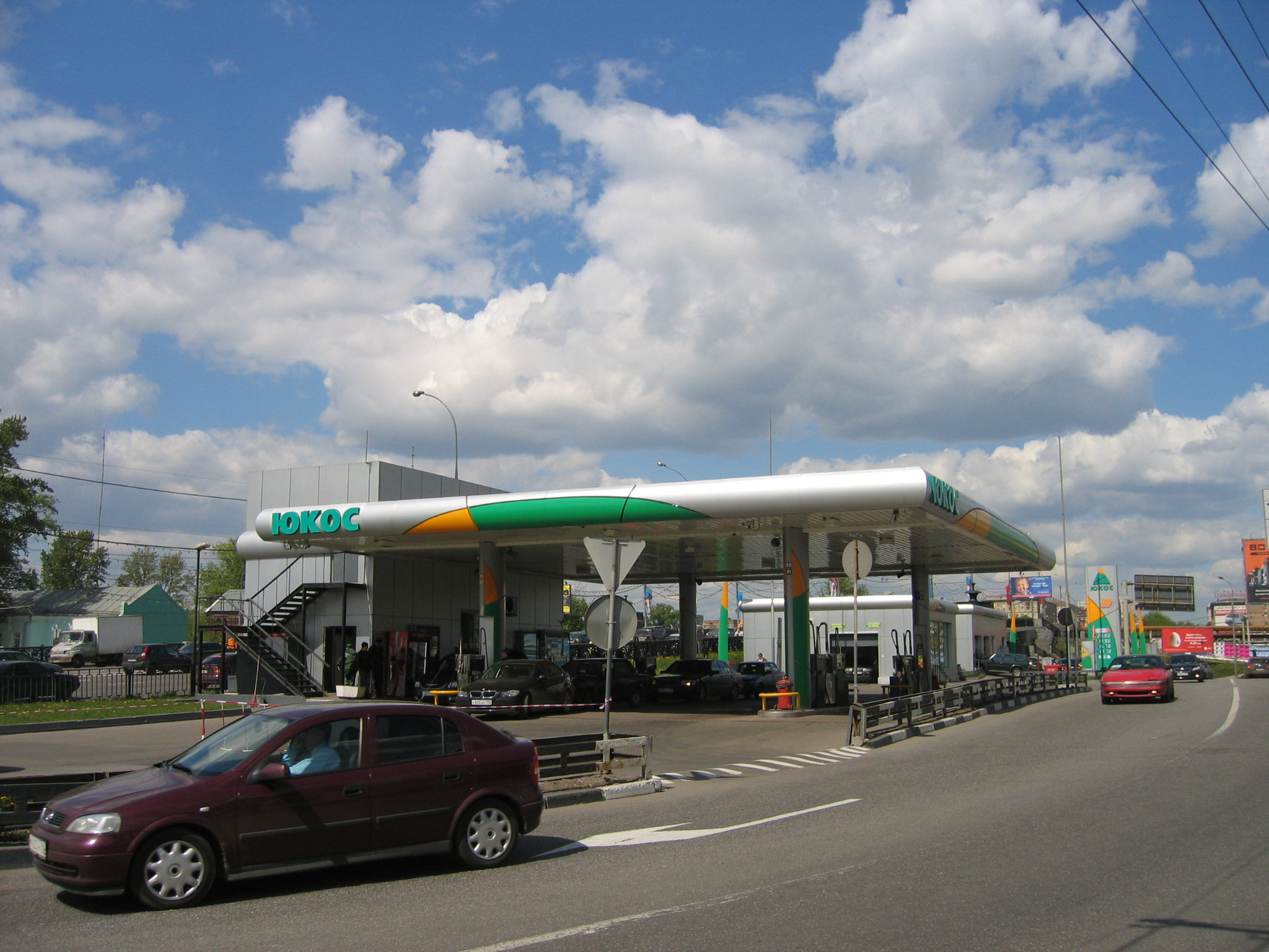 Yukos petrol station, Moscow